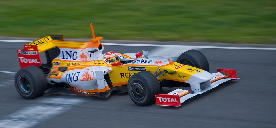 Alonso at Barcelona testing 2009 1/200s - F/7.1 - 135mm - ISO200